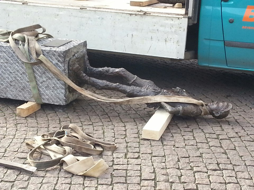 Lieverdje damaged